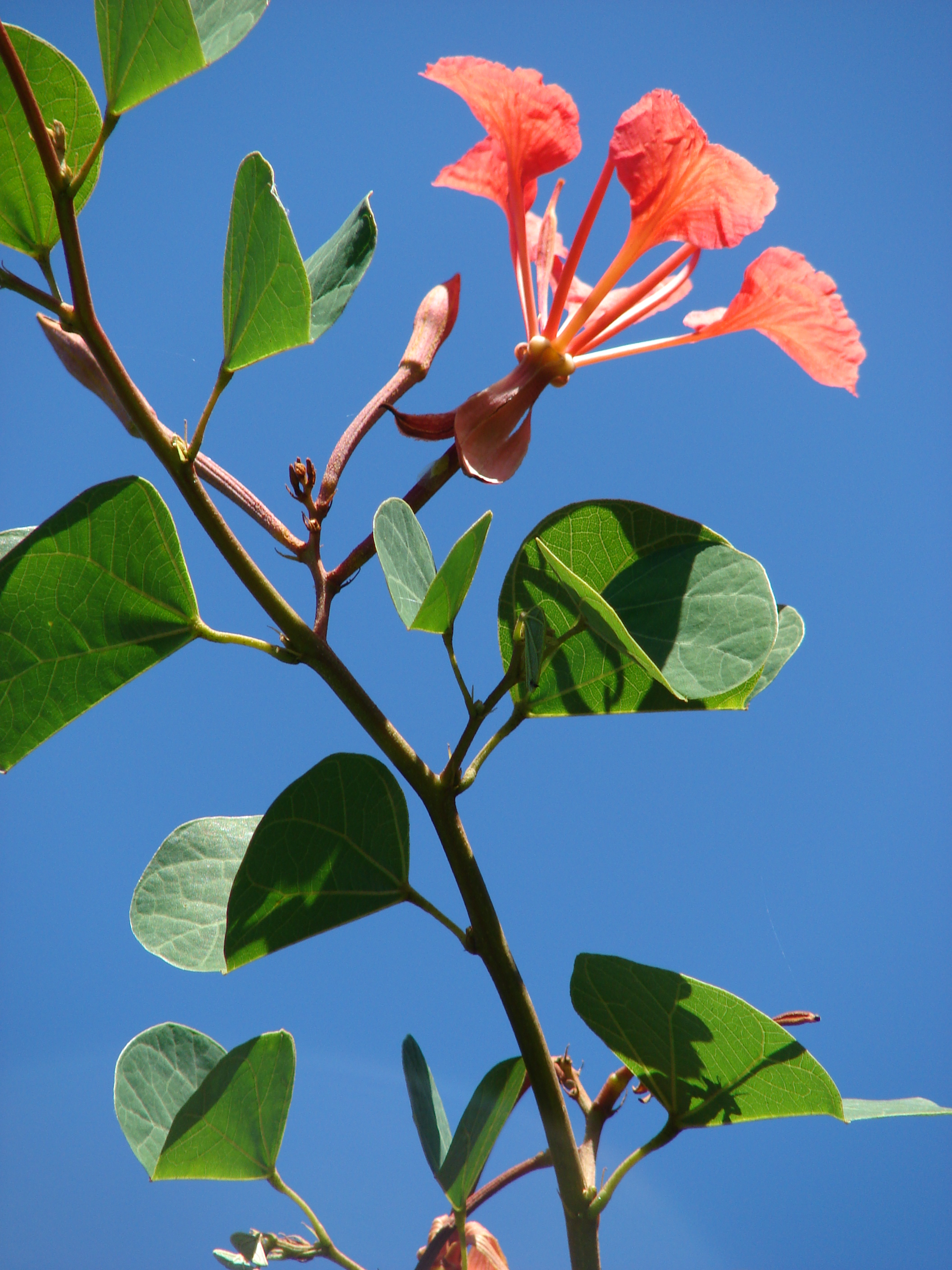 Bauhinia galpinii (flowers and leaves). Location: Maui, Enchanting Floral Gardens of Kula